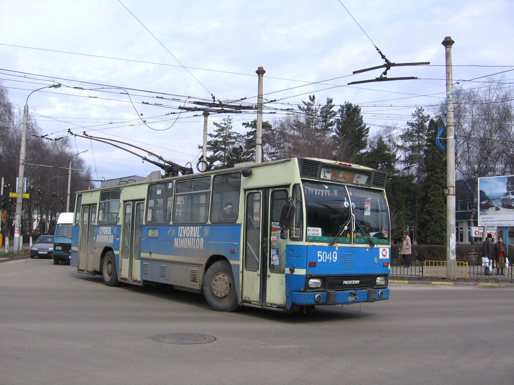 Trolleybus 5049 in Suceava (Rocar 212E type).